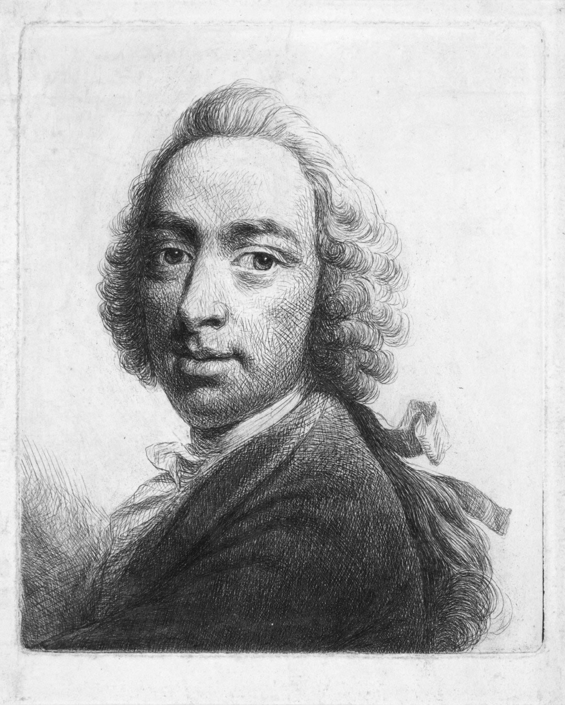 Frontispiece to Benjamin Wilson, Treatise on Electricity (2nd Edition, London, 1752)